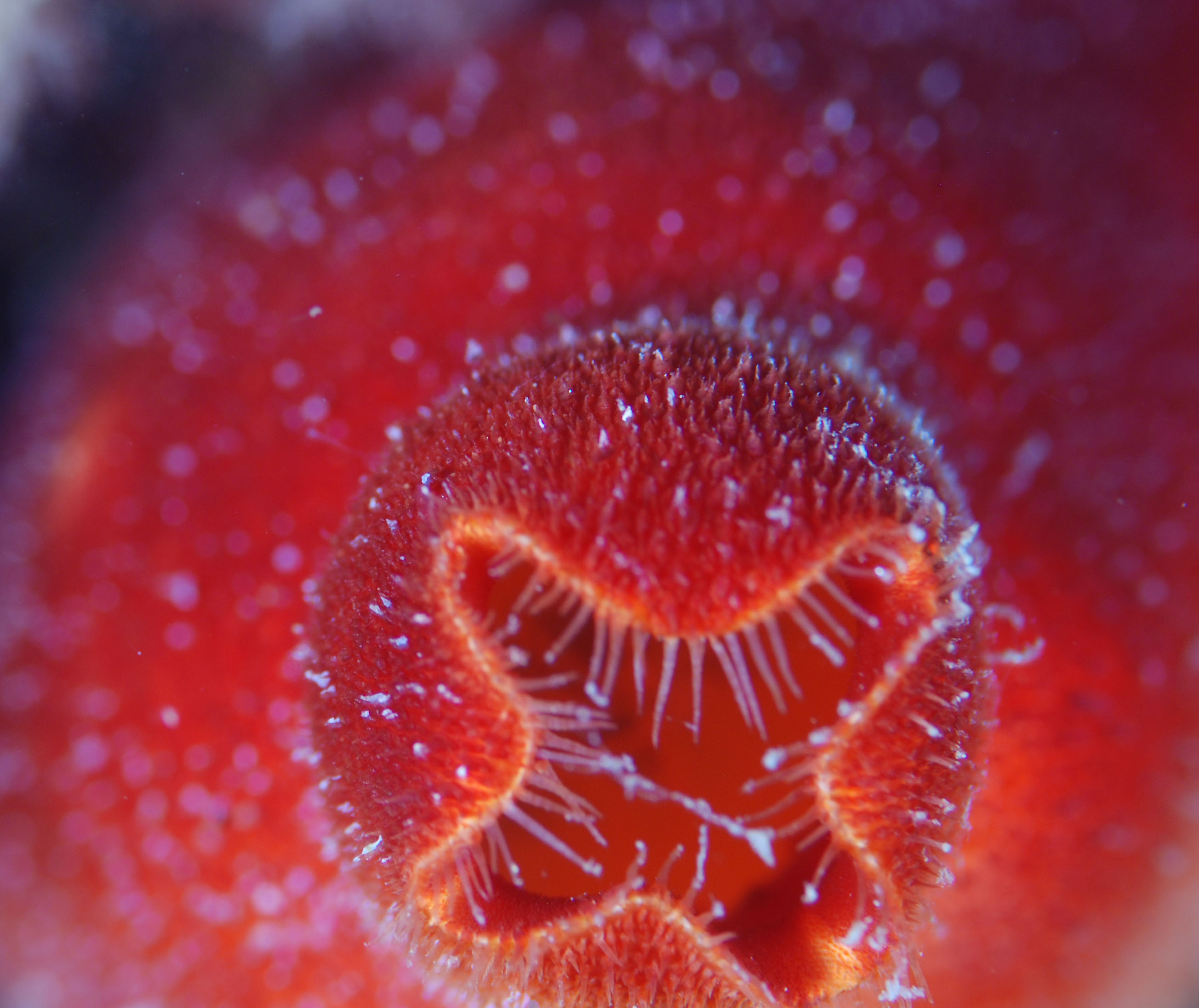 detail halocynthia papillosa